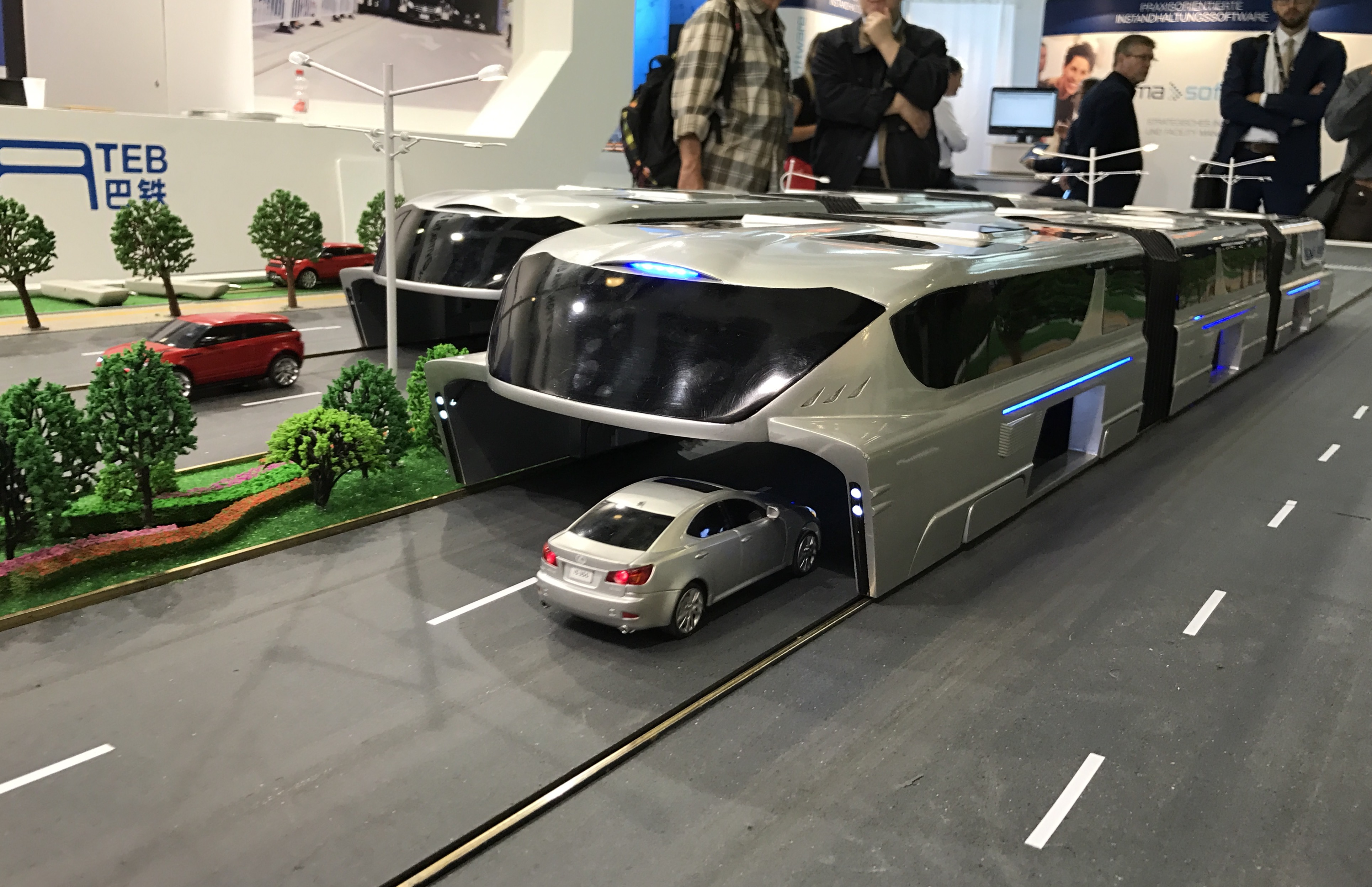 Transit Elevated Bus - Modell innoTrans 2016